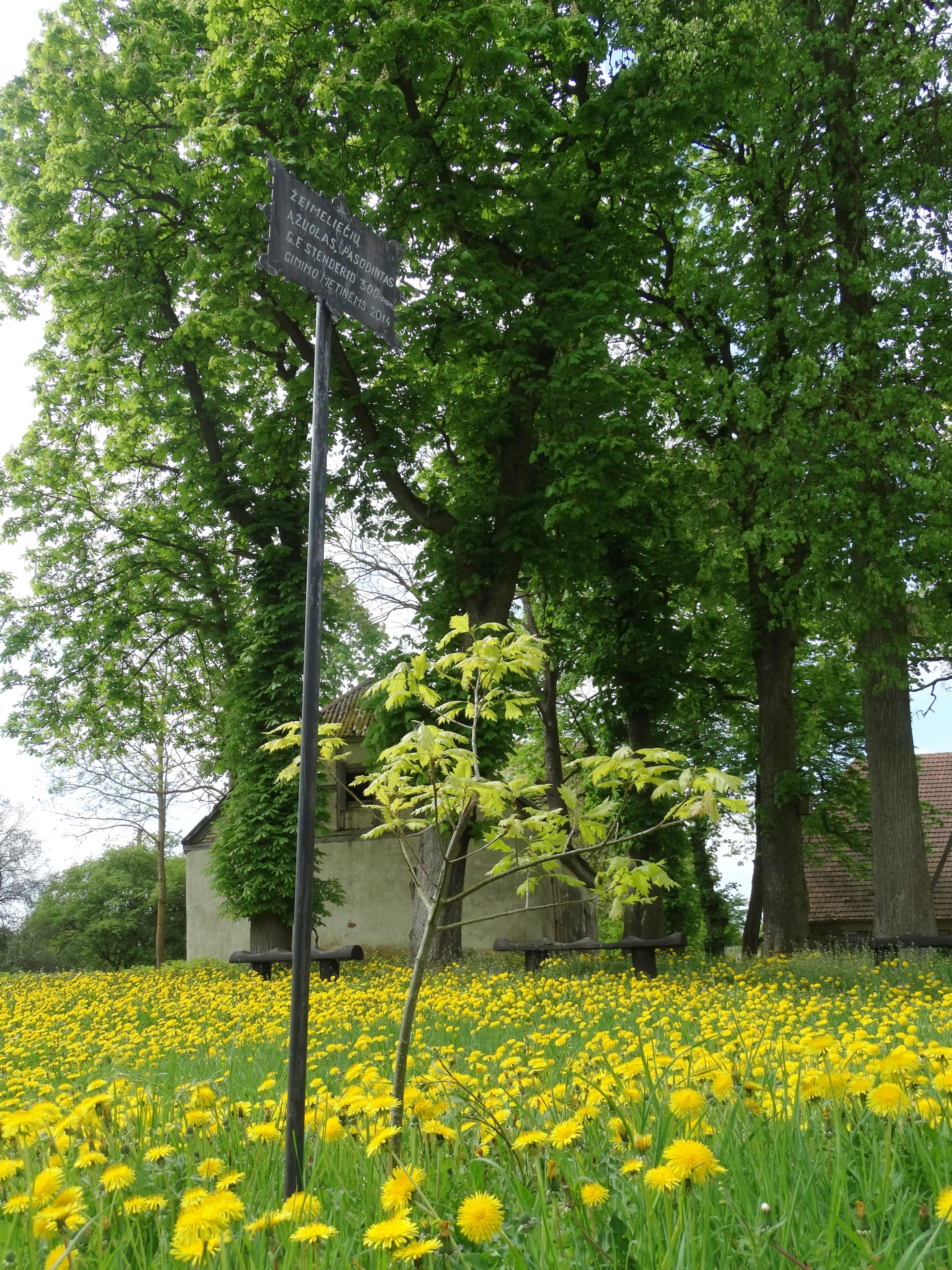 Memorial oak to Stender, planted in 2014, Žeimelis, Lithuania